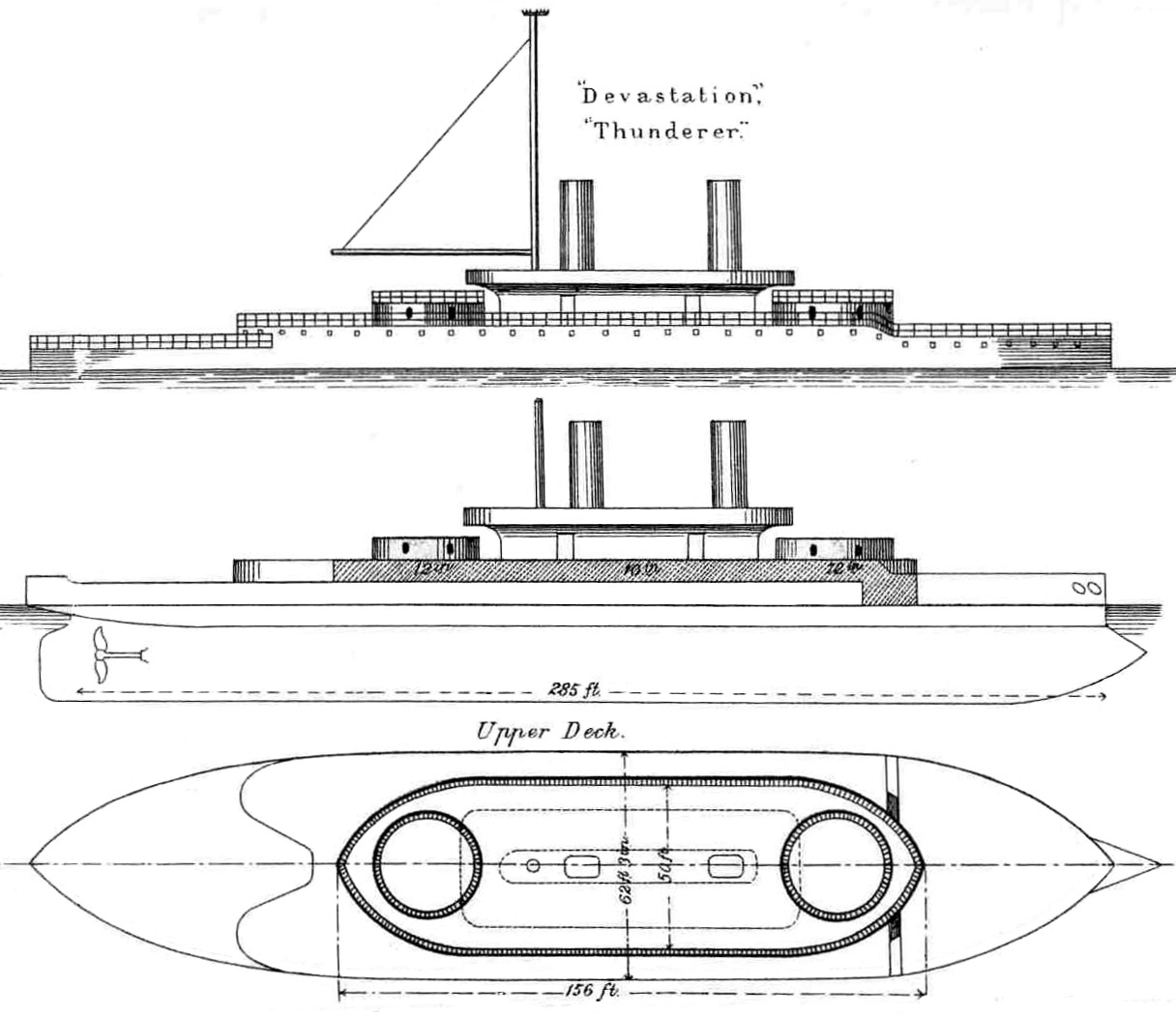 Diagrams depicting right elevation and deck plan of British Devastation class battleship.